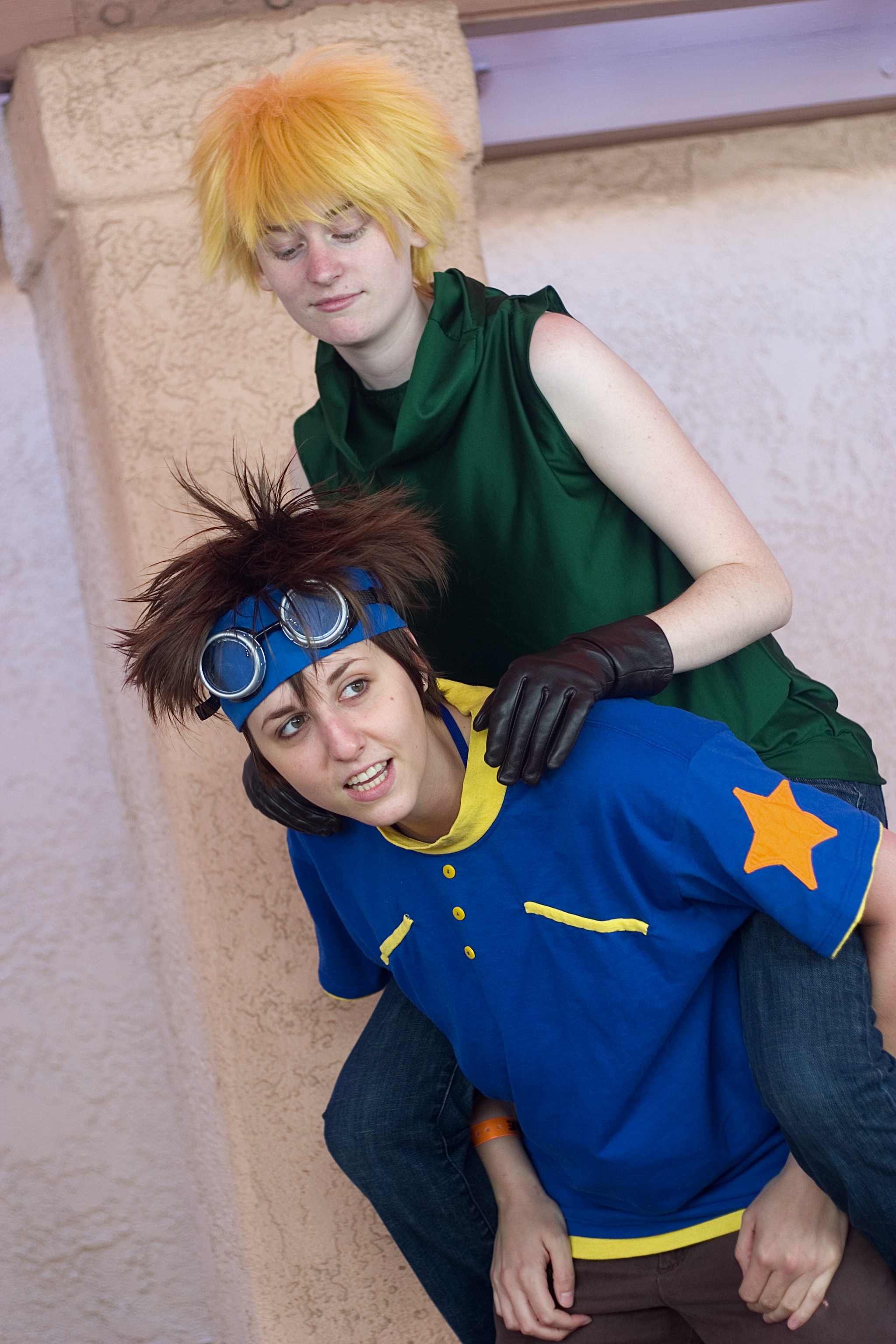 Cosplays of Tai (down) and Matt (up).